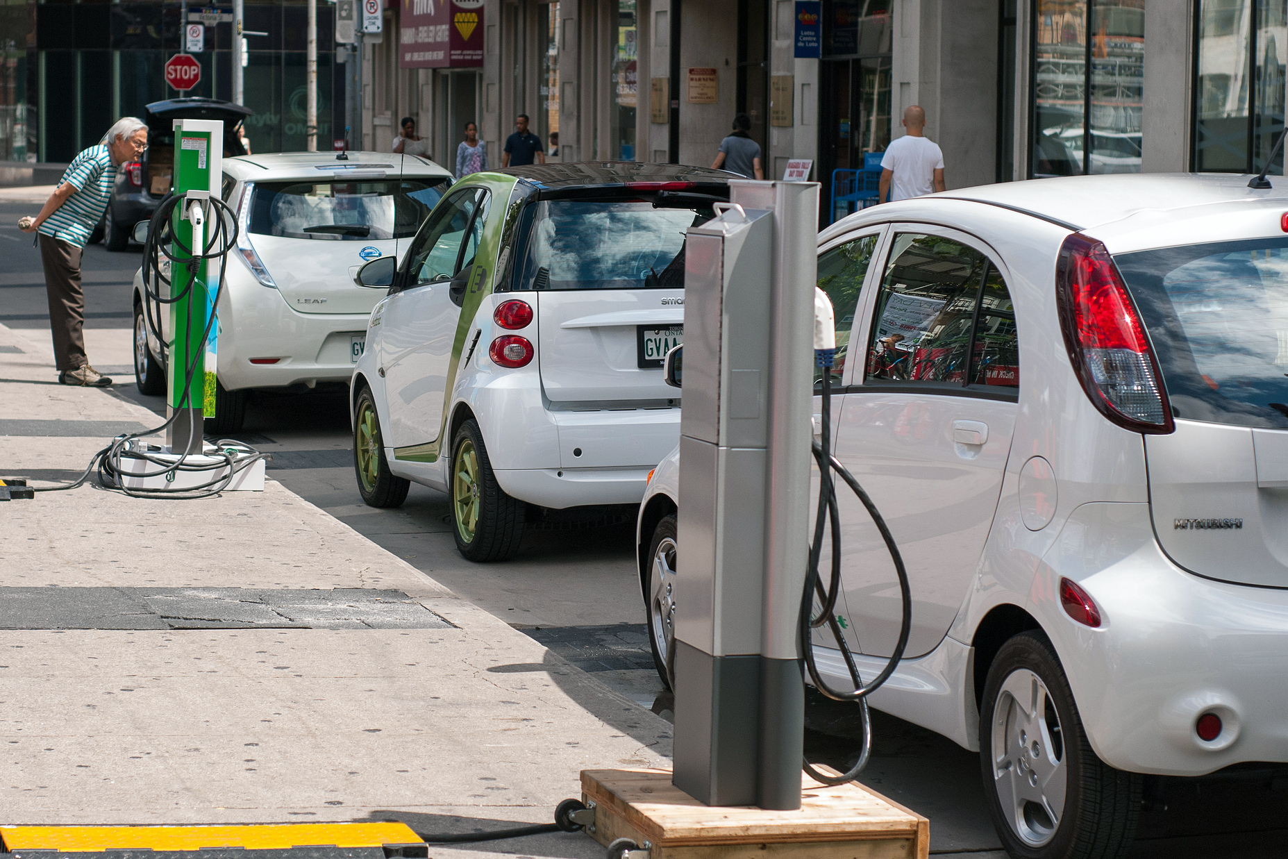 From left to right: Nissan Leaf, Smart ED and Mitsubishi i MiEV electric cars at Plug'n Drive's EV Day in Toronto